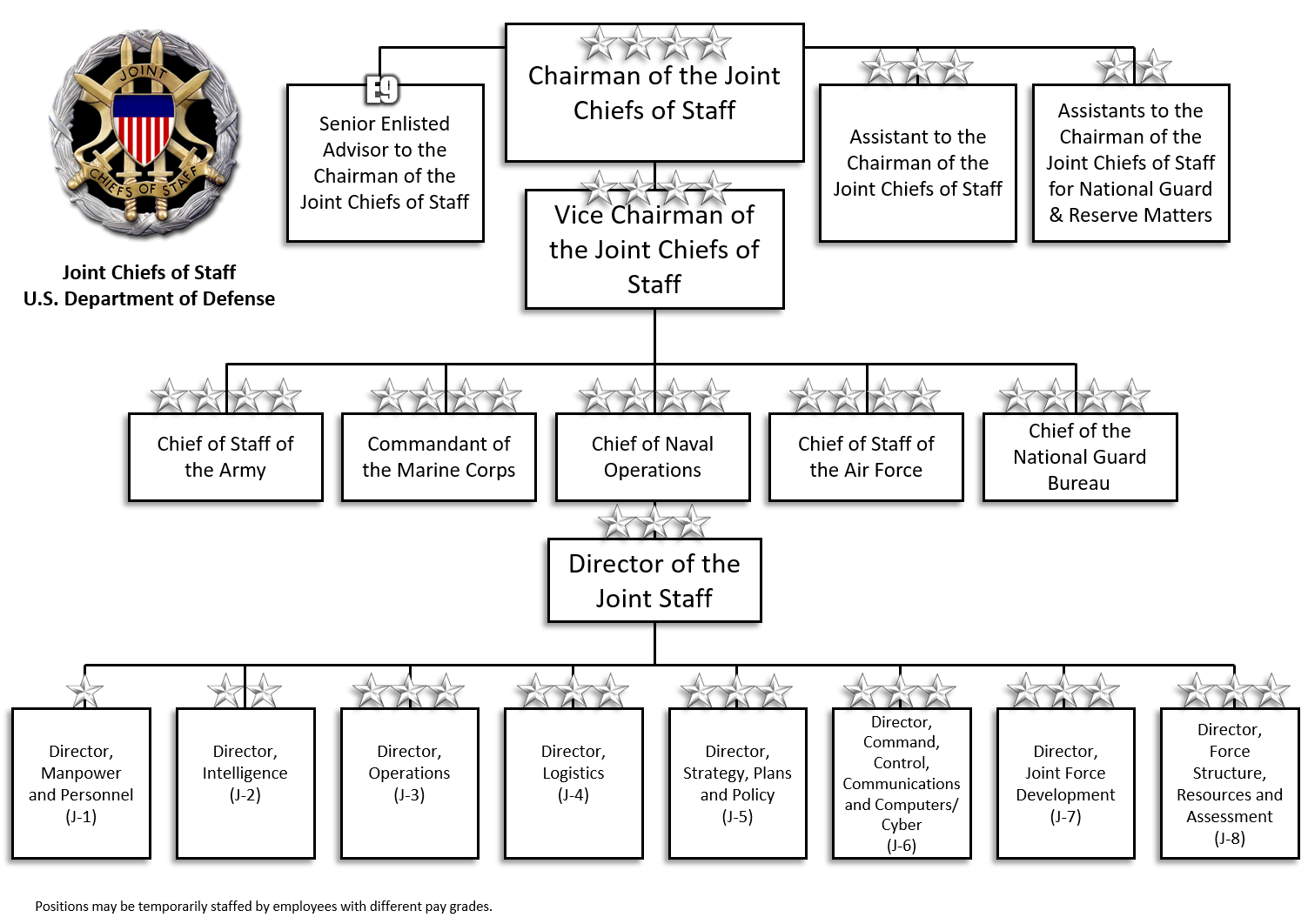 Org Chart for JS